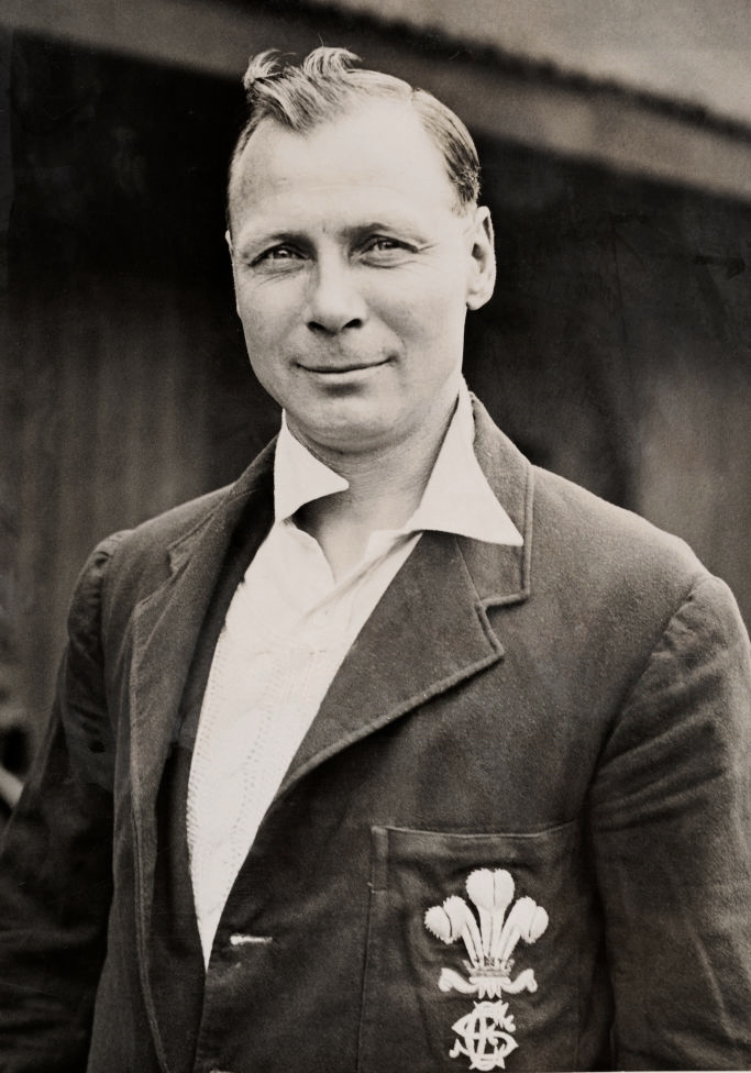 Surrey cricketer Alan Peach, circa April 1927. Herbert Alan Peach (6 October 1890 8 October 1961), was an all-rounder; a right-handed batsman and a right-arm medium pace bowler. Alan Peach was born at Maidstone, Kent. World War I delayed his first-class debut until 1919, when he was already 28, but in a career that extended until 1931 he still managed to take 795 wickets at 26.58 and score 8940 runs at 23.71. He was Surrey coach from 1935 to 1939 and was responsible for discovering Alec and Eric Bedser.